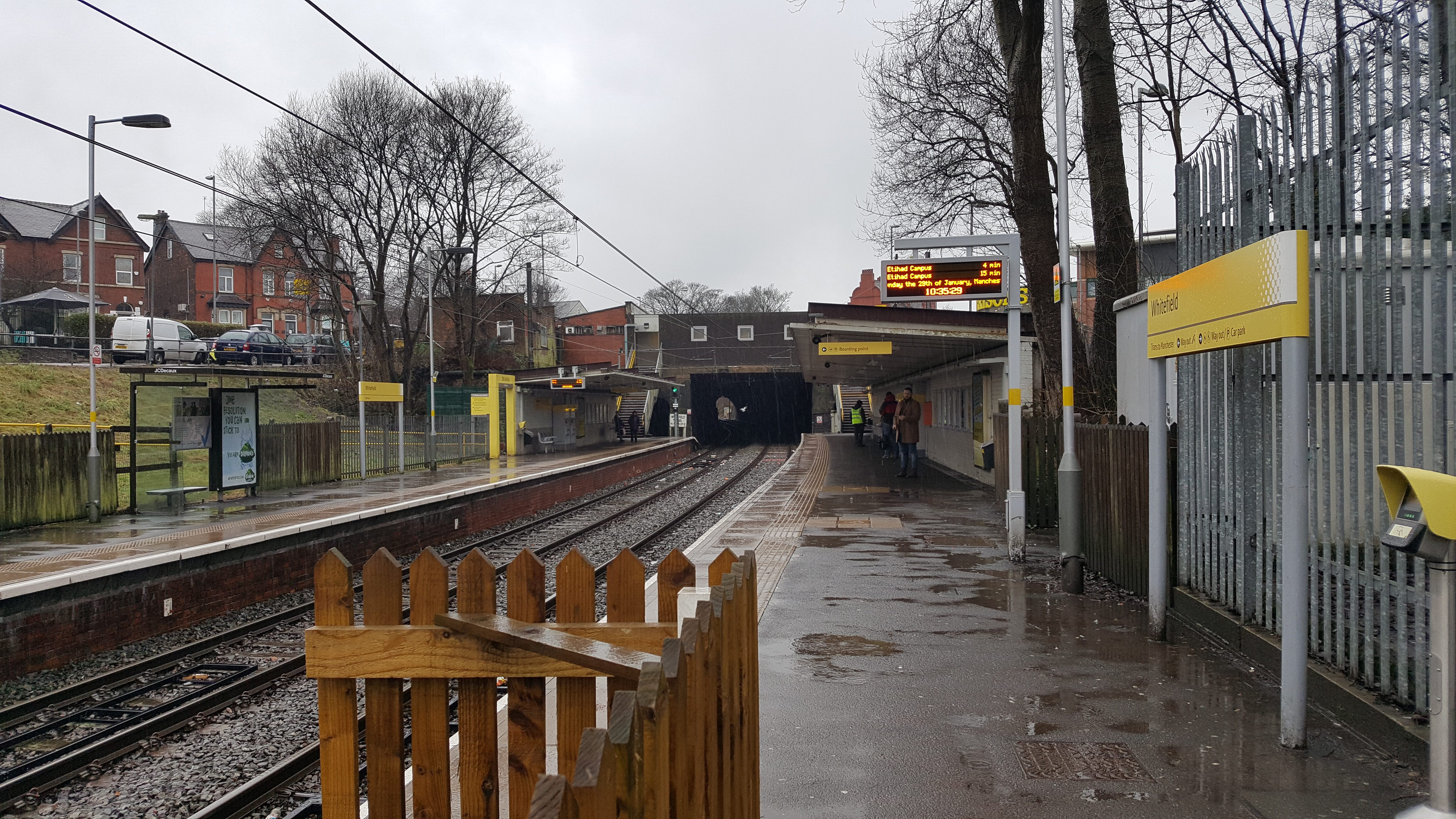 Whitefield Metrolink station looking North.